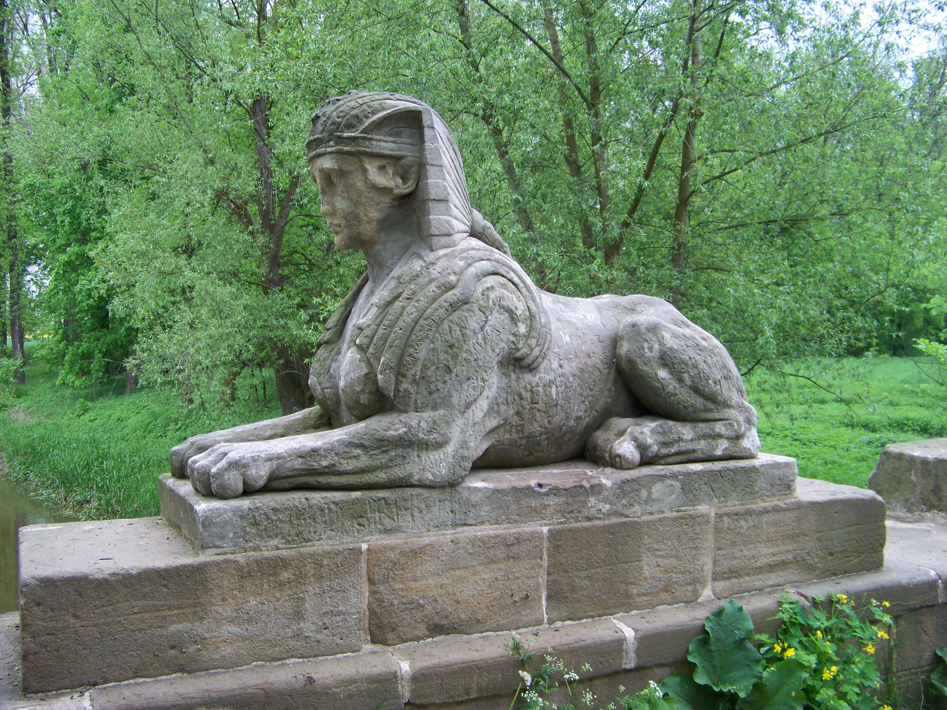 Veltrusy, Mělník District, Central Bohemian Region, the Czech Republic. Veltrusy Mansion, castle park, the Sphinx on the bridge.